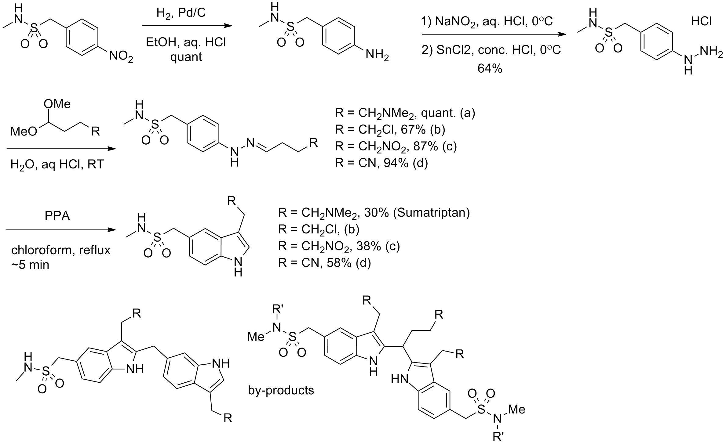 U.S. Patent 4,816,470 (1989). U.S. Patent 5,037,845 (1991). WO 0134561 (one-pot) Drugs of the Future, 1989,14, 35-39.